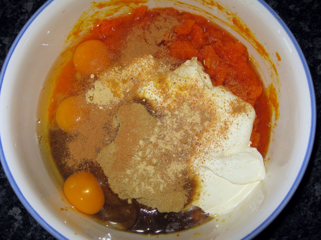 Pumkin tart recipe, step 1